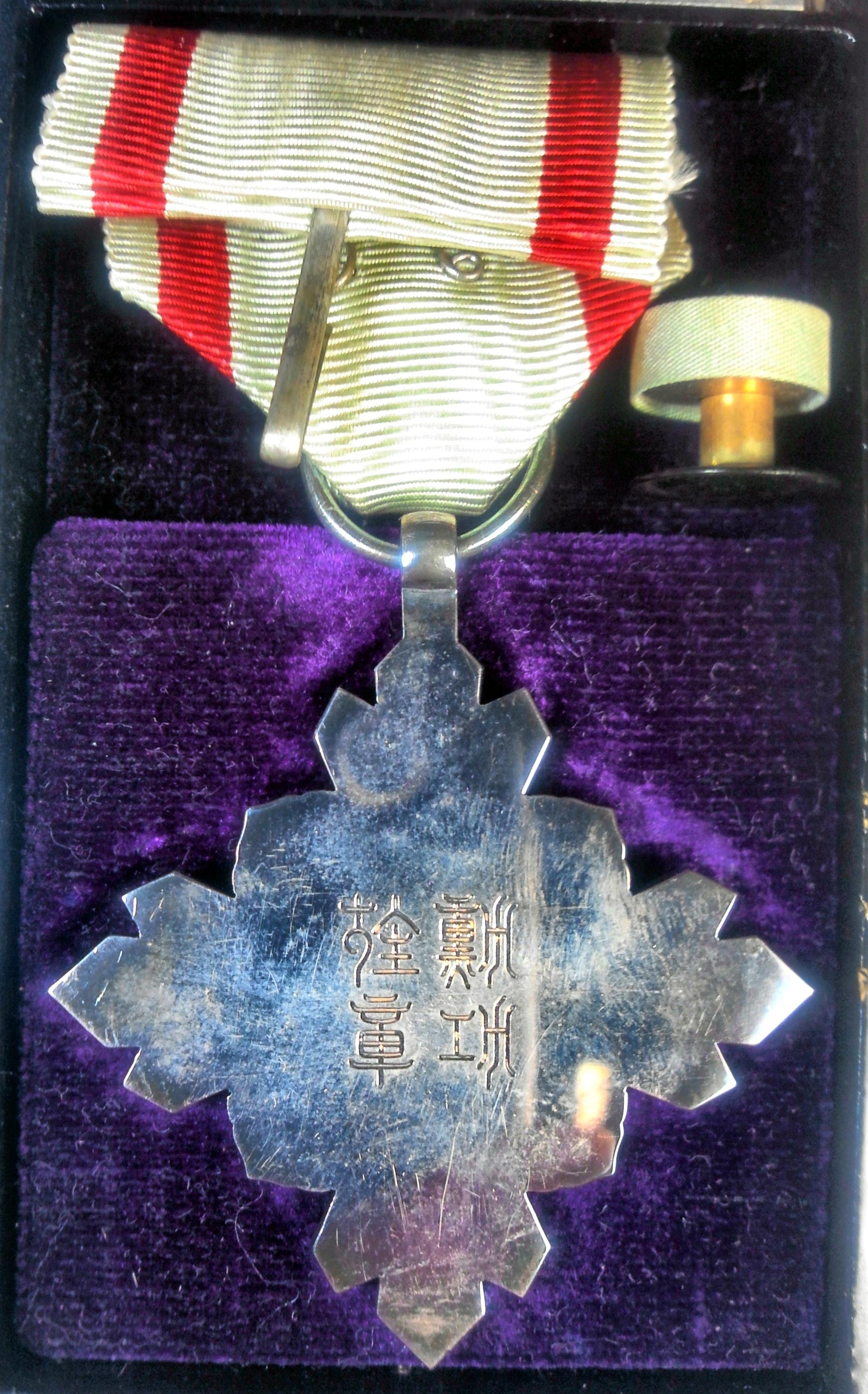 Reverse of Order of the Iridescent Clouds 8th Class.